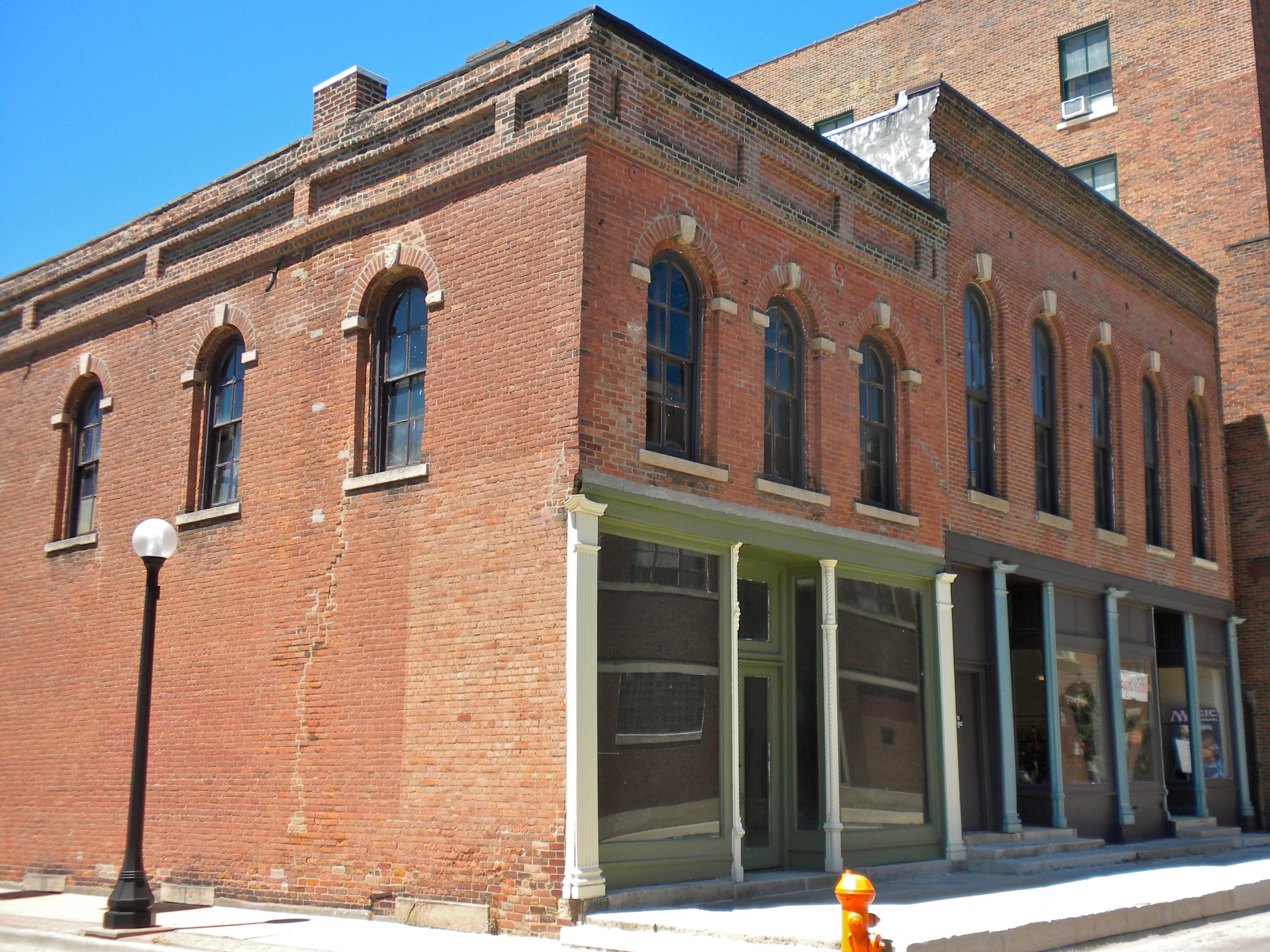 Building at 201 North Market Street on the NRHP since November 7, 1997. At 201 N. Market St., Champaign, Illinois Built about 1876 and used as a saloon and later for furniture storage, the building is known for the 10 inch thick sidewalk in front of it. Behind 201 is the building at 203-205 N. Market, which is listed separately on the NRHP.